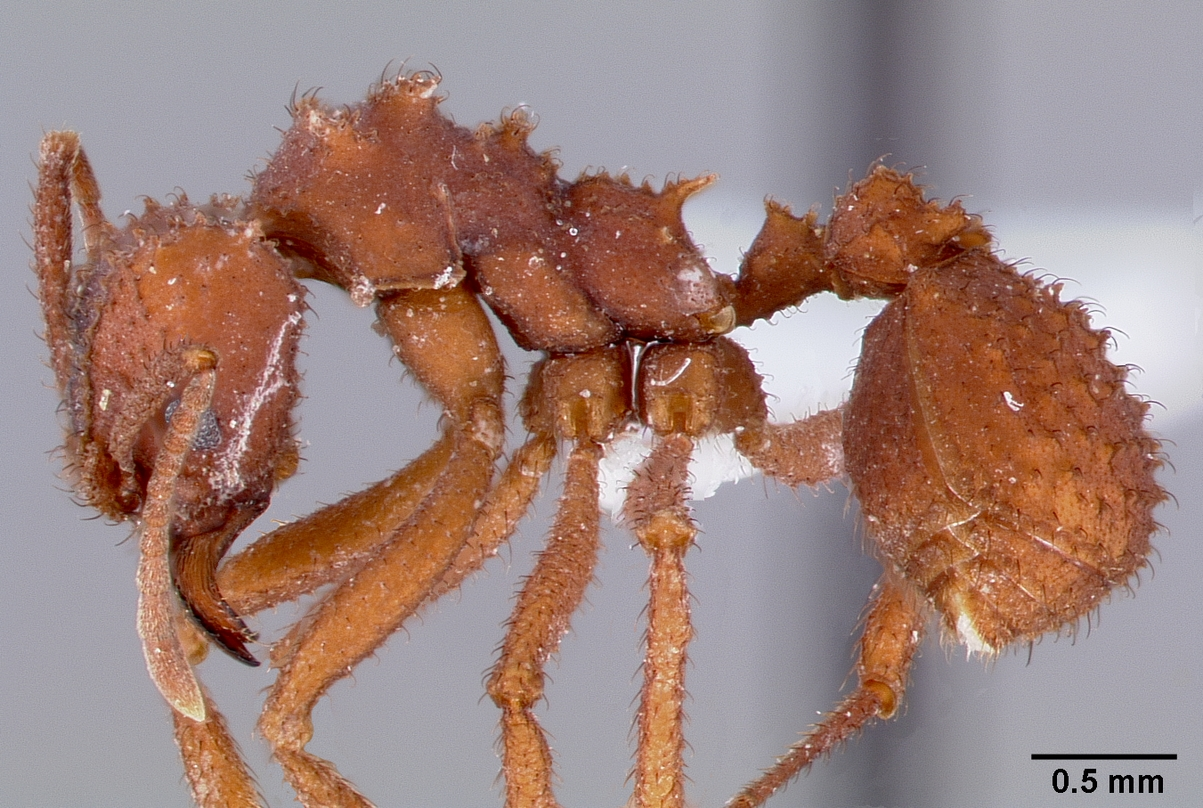 Profile view of ant Trachymyrmex arizonensis specimen casent0000334.